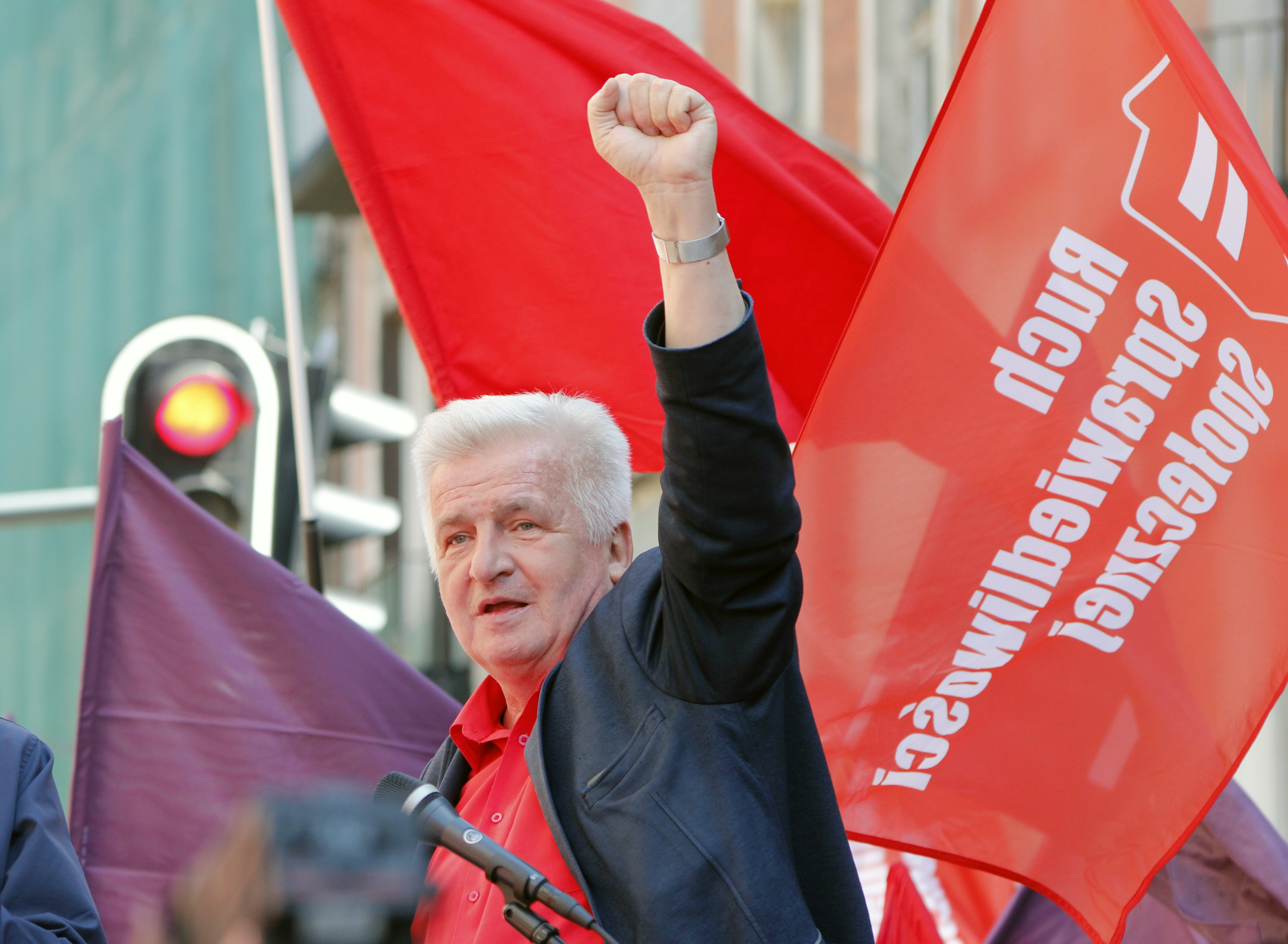 Piotr Ikonowicz, Polish politician during 1st May demonstration in Lodz, Poland.